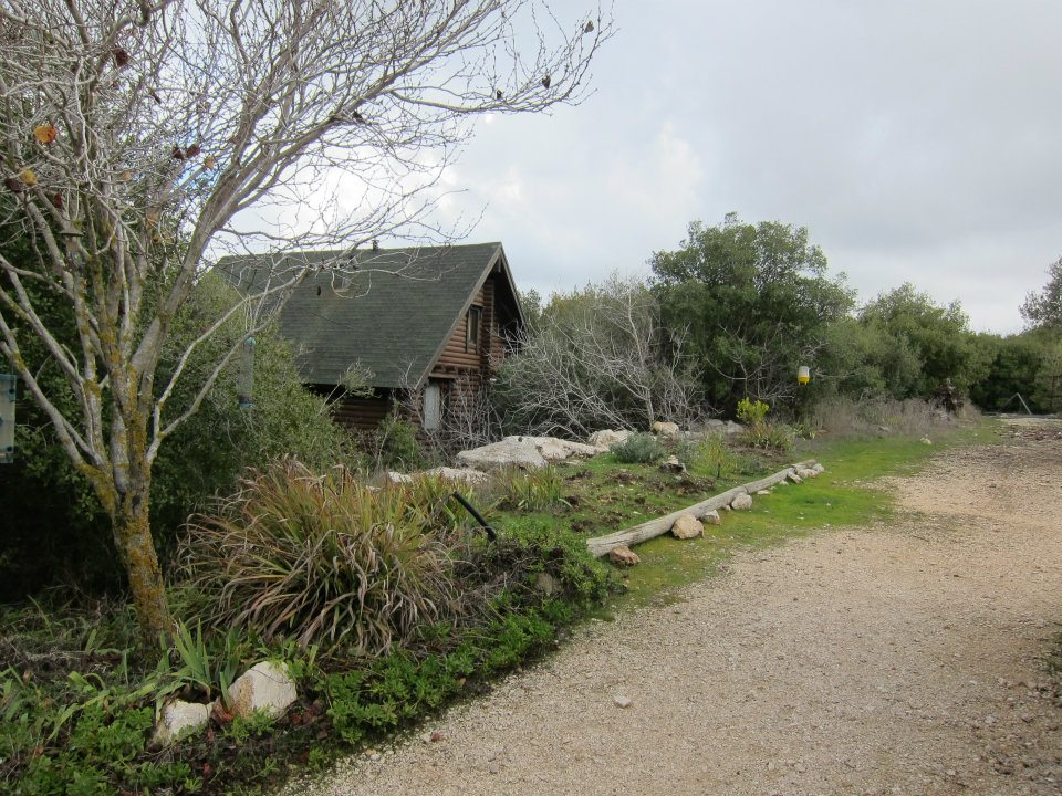 Geography of Israel